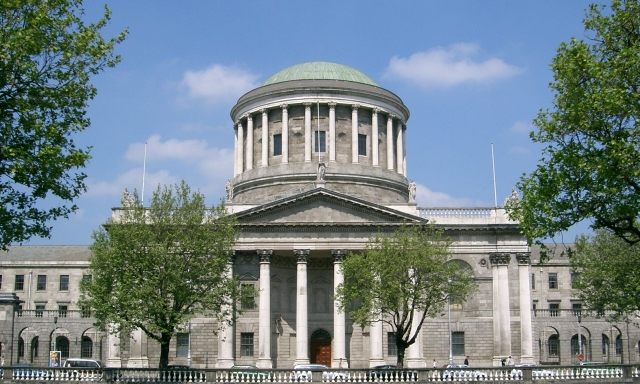 The Four Courts Building.